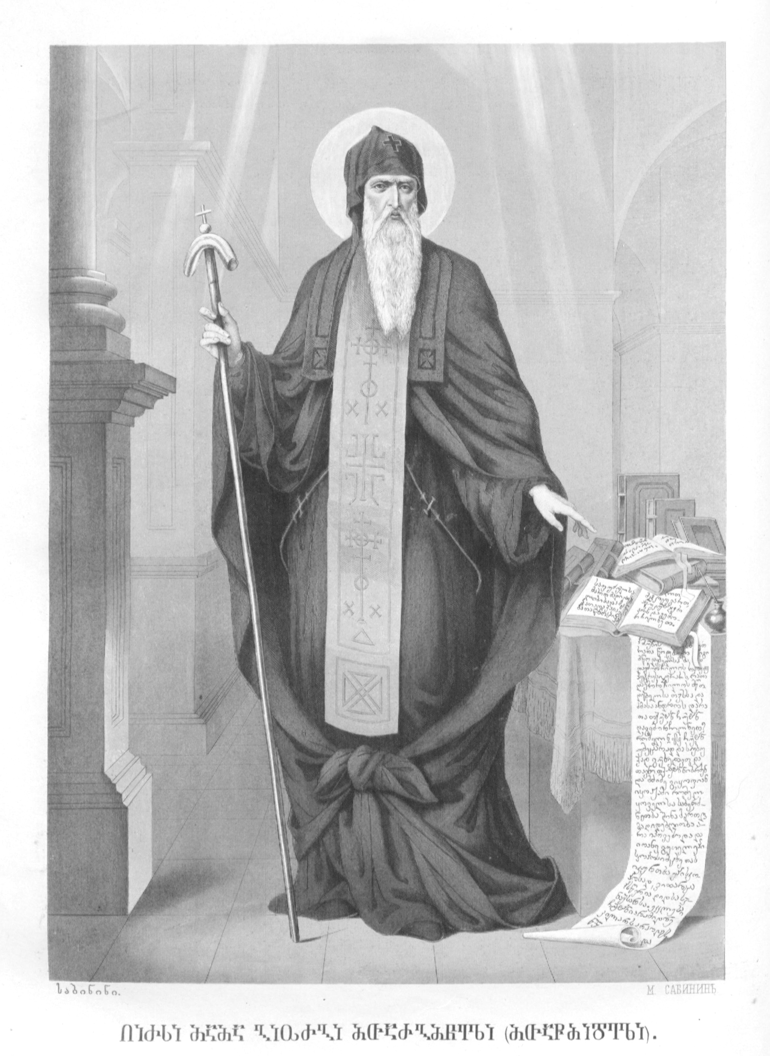 George the Hagiorite, a 11th-century Georgian monk